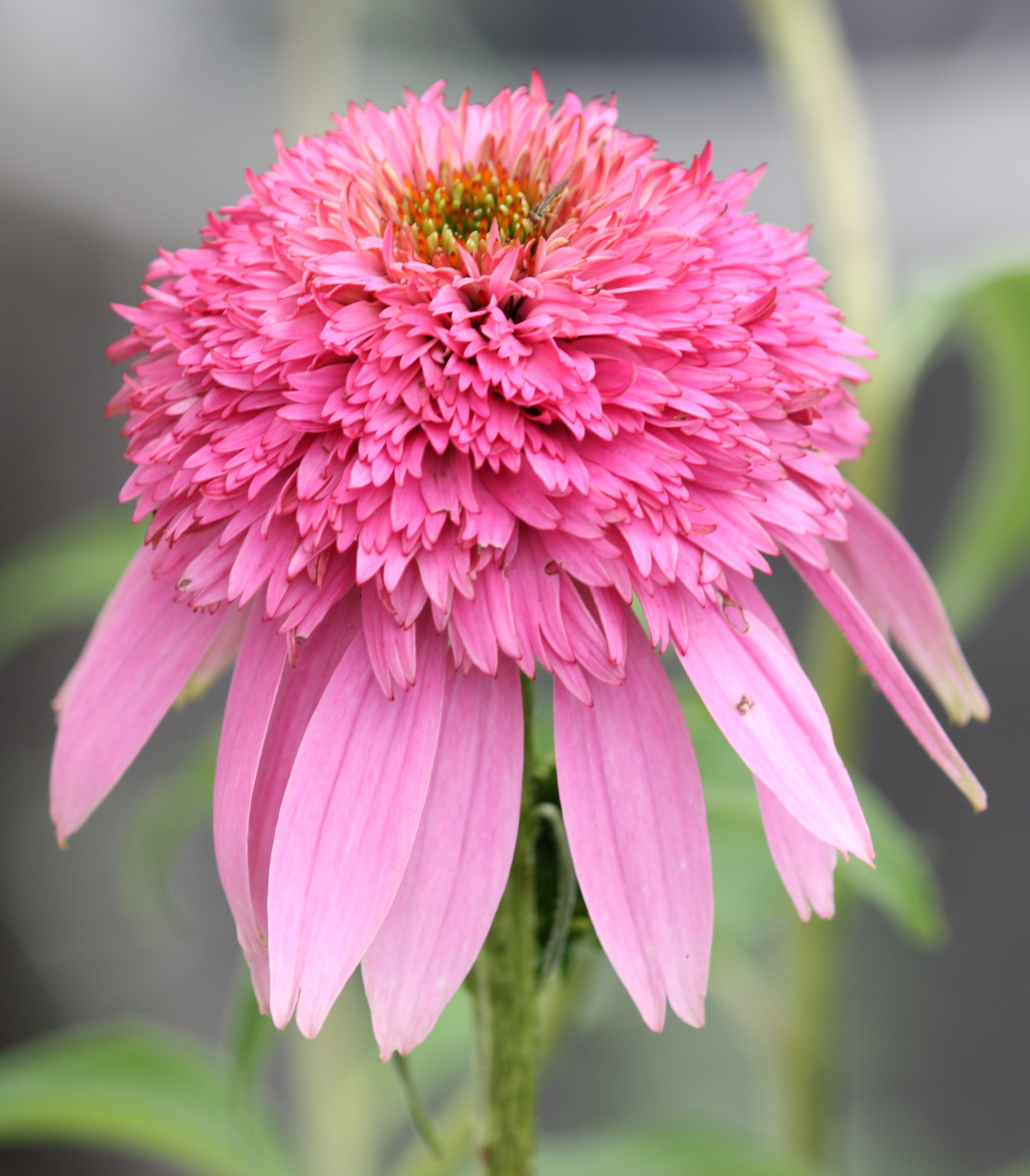 Echinacea purpurea "Pink Double Delight" Coneflower